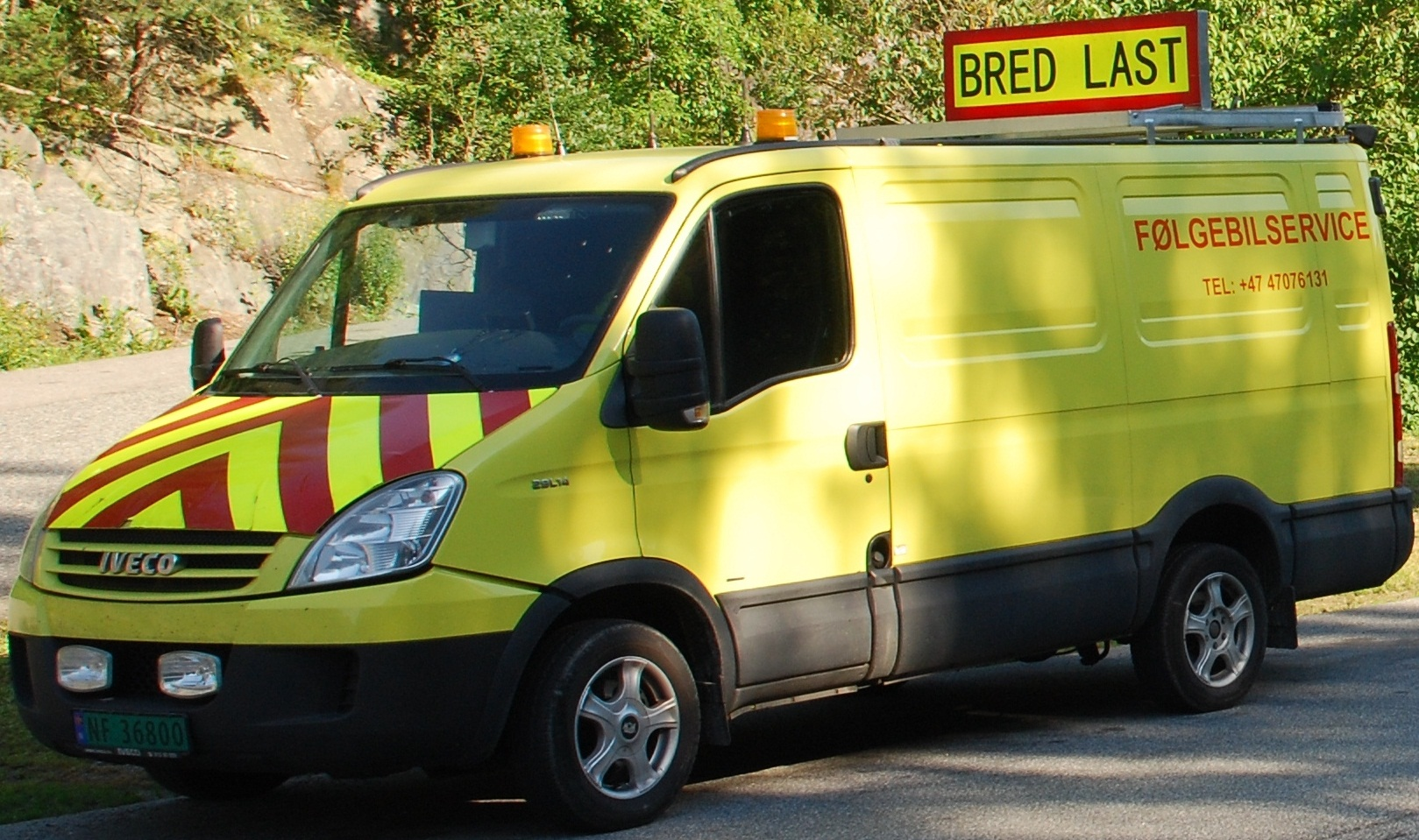 Norwegian pilot car